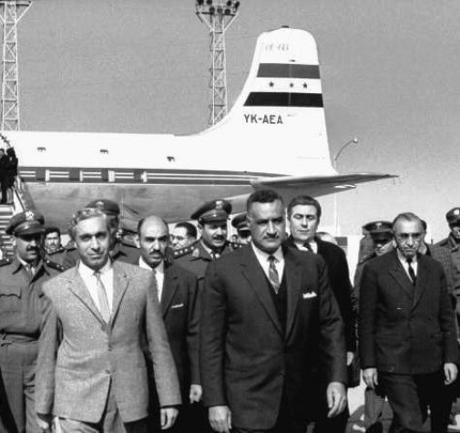 Syria´s President Amin al-Hafez at Cairo Airport in August 1963 being greeted by President Gamal Abdul Nasser of Egypt / President Hafez had just come to power, five months after the Baath Party takeover. Standing to the far right is the Baath co-founder, Prime Minister Salah al-Bitar